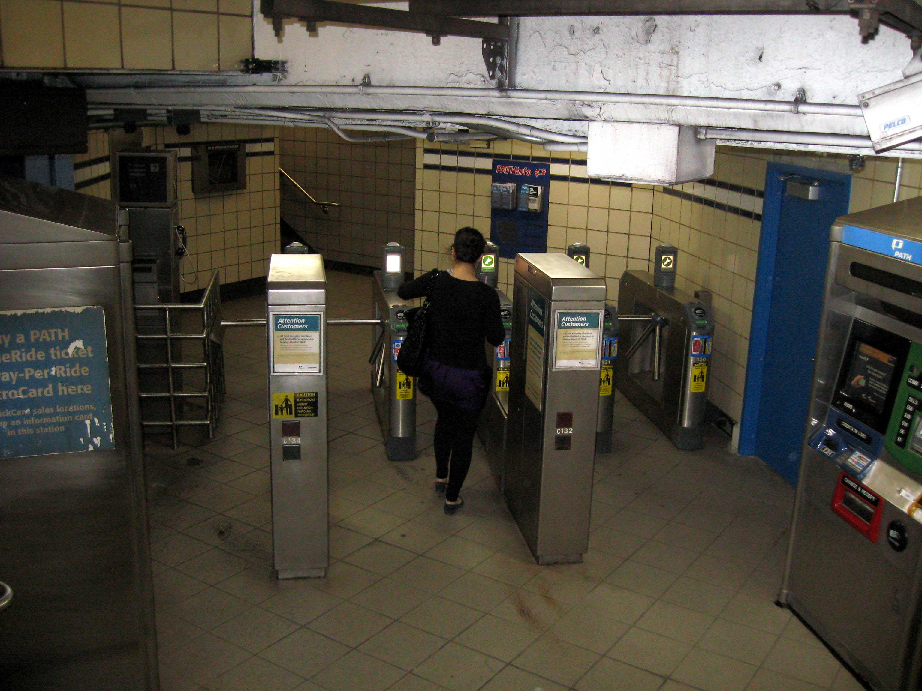 Looking down at turnstiles of en:23rd_Street_(PATH_station)